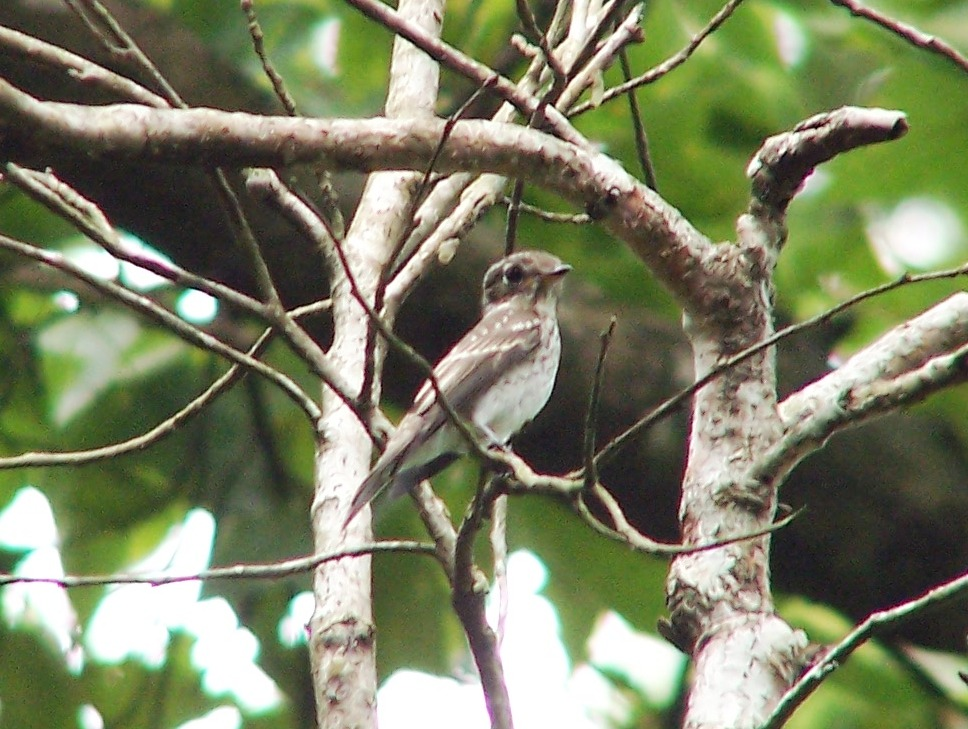 Grey-streaked Flycatcher (Muscicapa griseisticta)